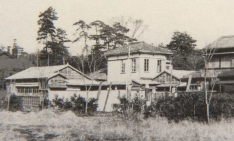 This is Nikaido Gymnastic School in Yoyogi, Tokyo, Japan. It is now Japan Women's College of Physical Education.